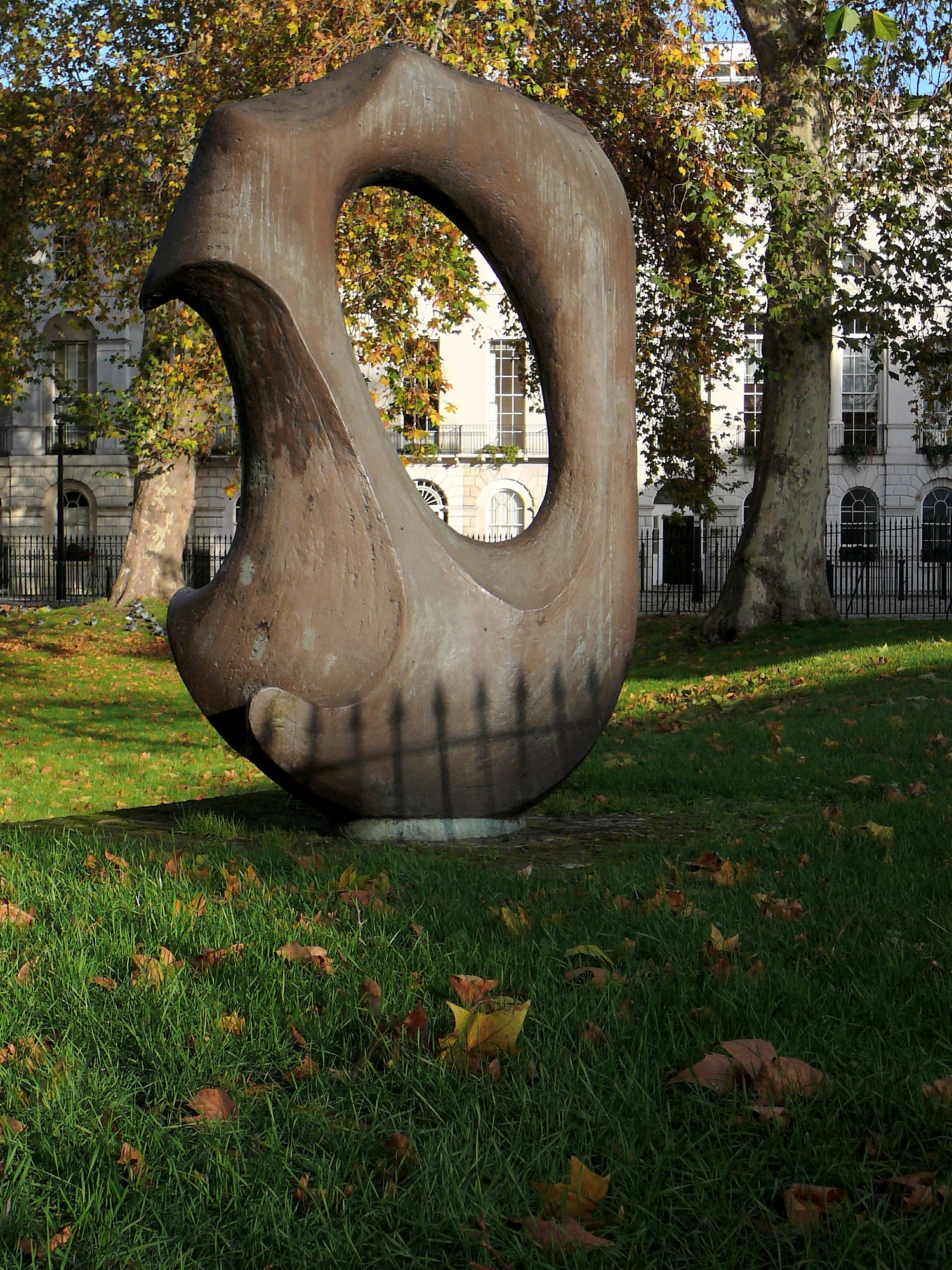 A view of ‘View’, a sculpture by Naomi Blake in Fitzroy Square Garden. The image was taken with a Panasonic Lumix DMC-TZ1.